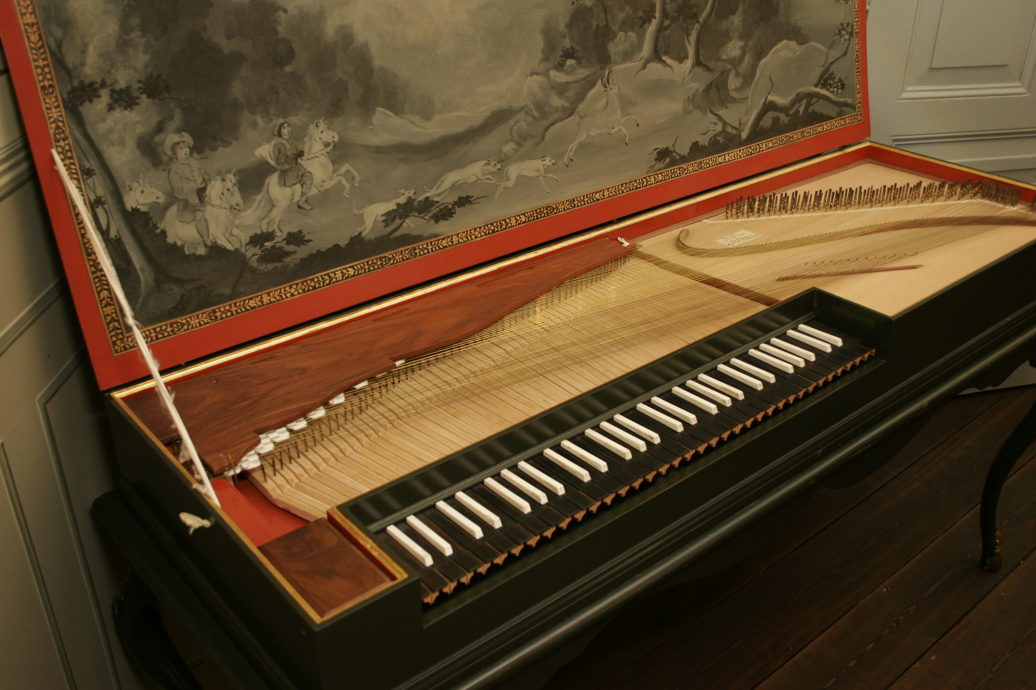 A 1977 clavichord by Keith Hill, op. 44 (opus 28 reworked).